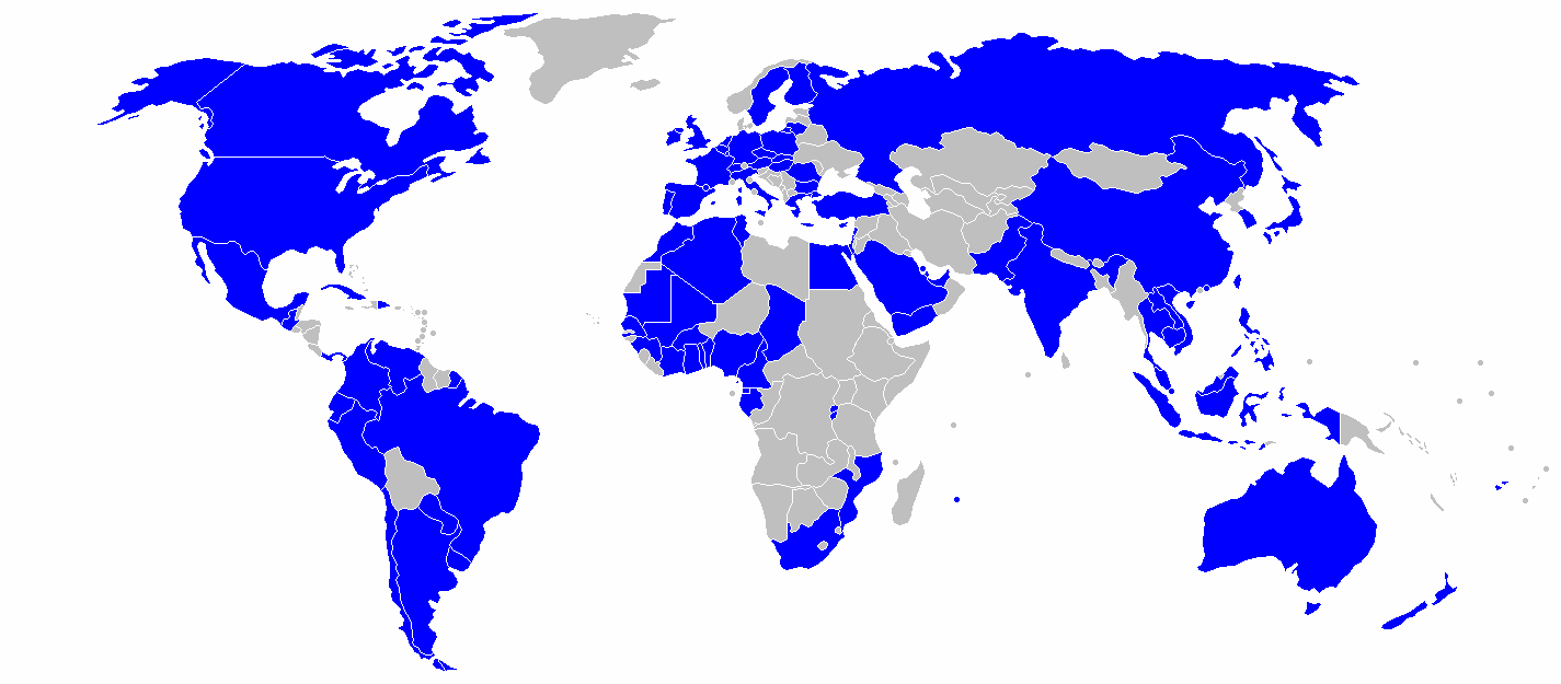 Accor global locations